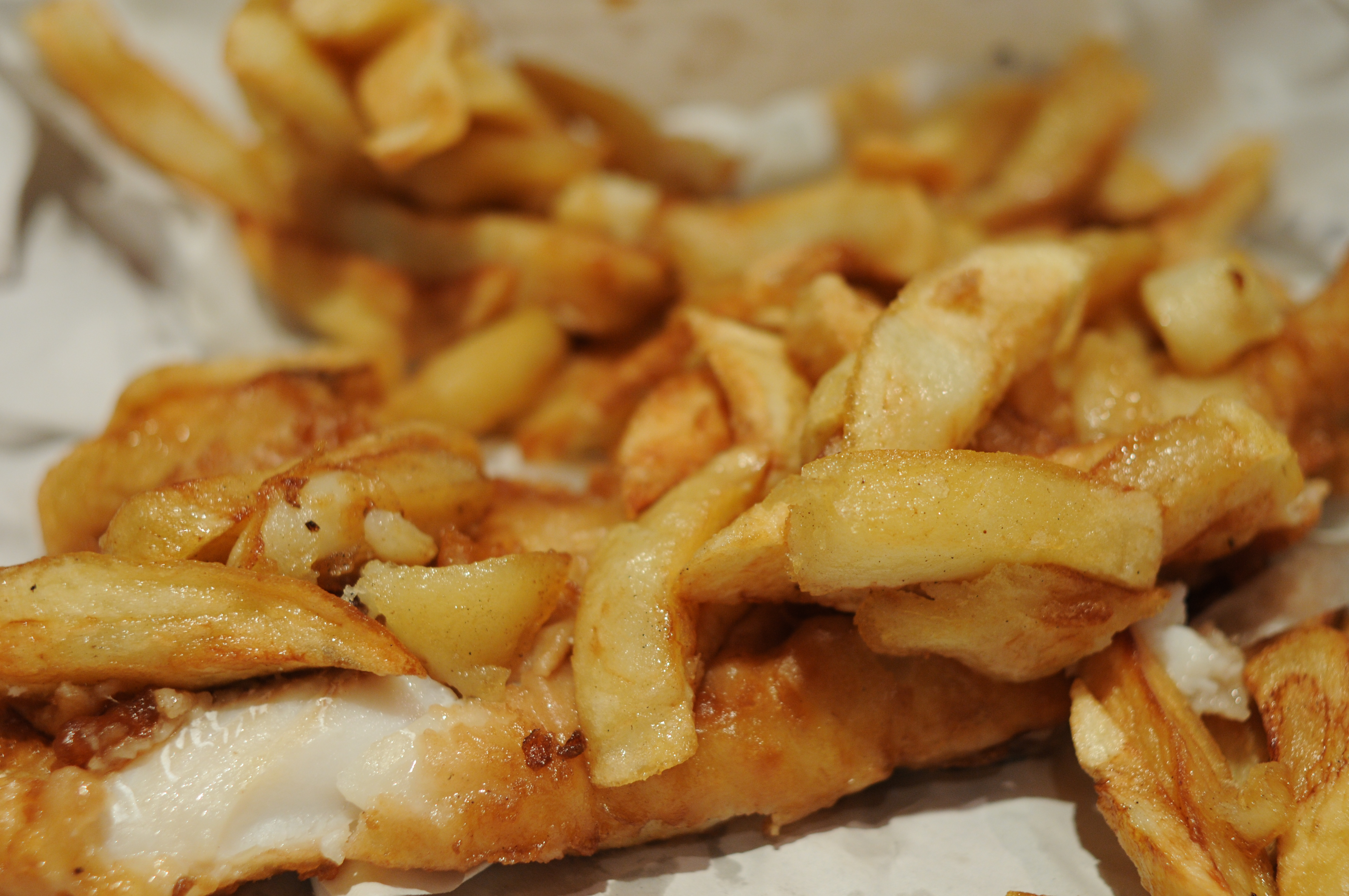 Traditional Fish 'n' Chips